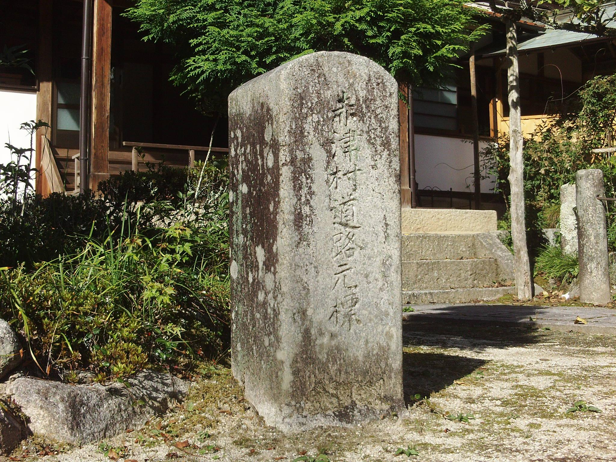 Kilometre zero of Akadzu village. (Akadzu village, Higashikasugai-gun, Aichi.)